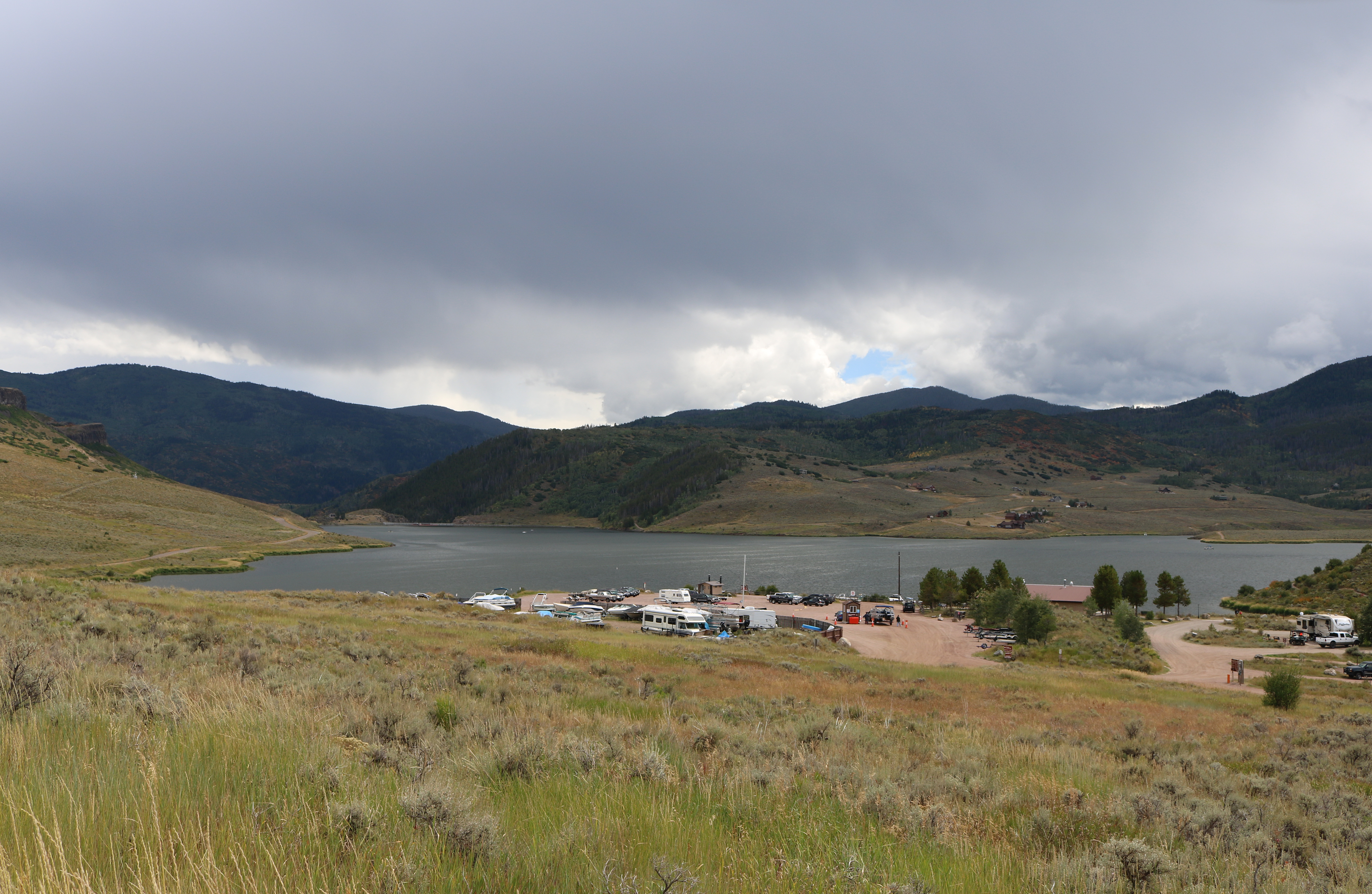 A view of Stagecoach Dam in Stagecoach Reservoir, in Stagecoach Park. The dam is on the Yampa River and is in Routt County.